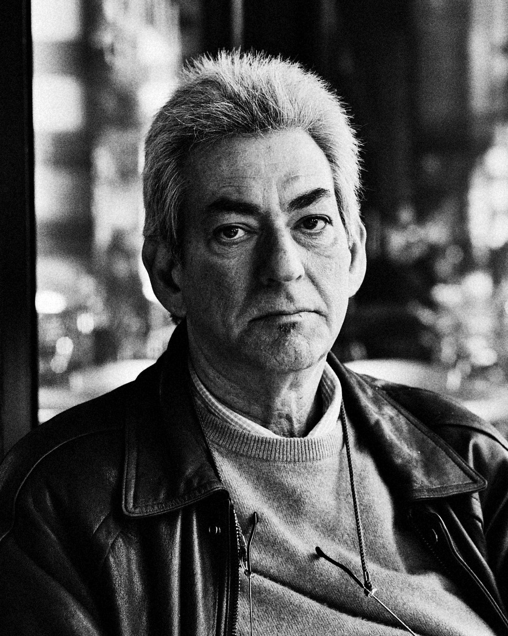 Richard Gordon, Photographer, San Francisco, SFMOMA